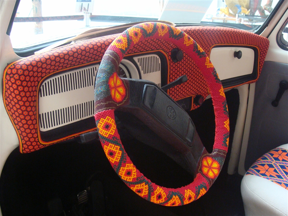 Steering wheel of the Vochol